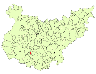 Atalaya, spanish municipality in the province of Badajoz, Extremadura.